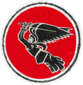 561st Fighter-Day Squadron - Emblem